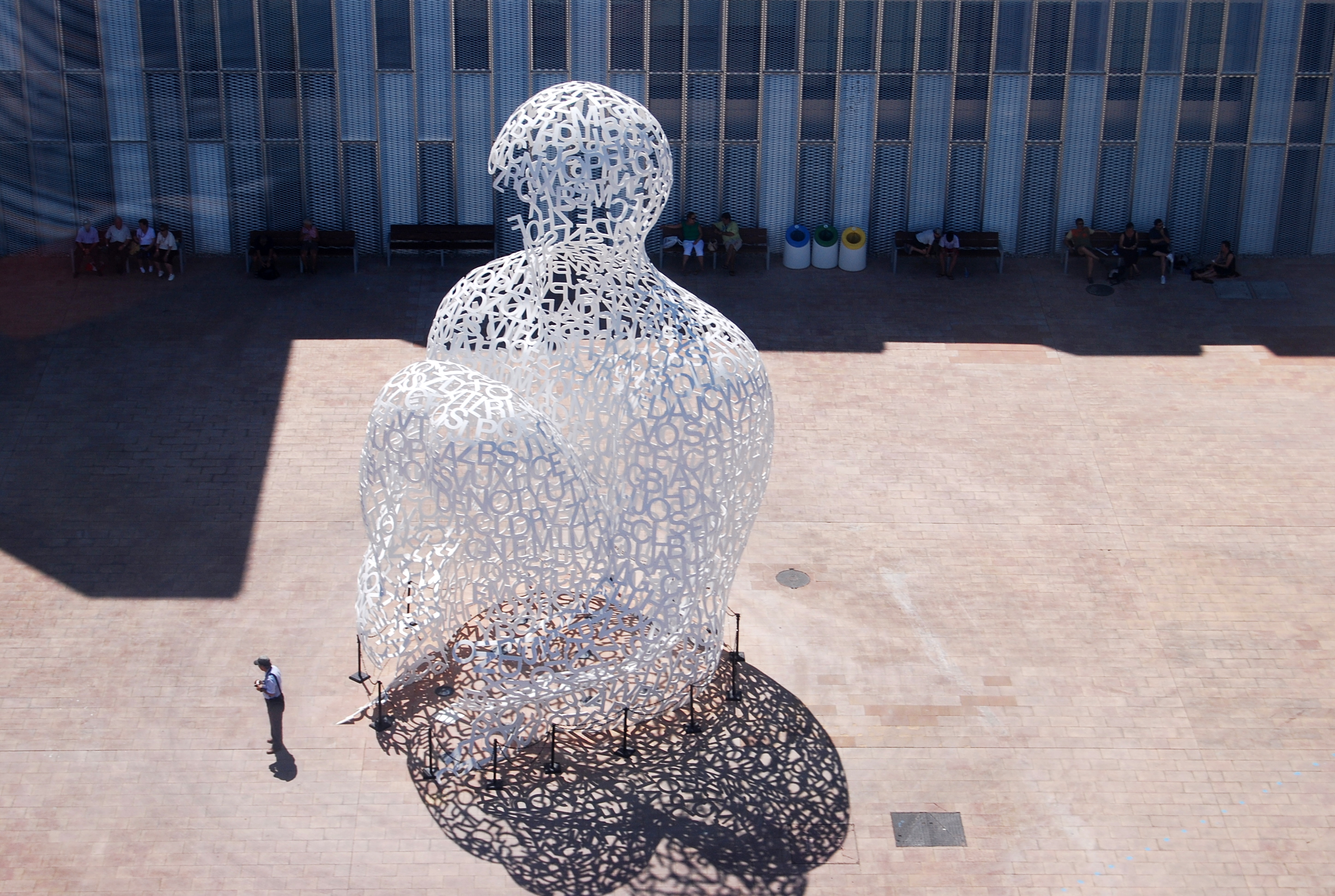 Taken in Zaragoza, Aragon; Taken with a Nikon D40X. Work of art by Jaume Plensa